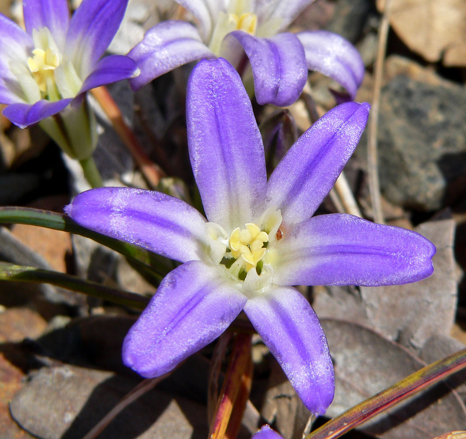 Brodiaea terrestris ssp. terrestris — Dwarf brodiaea. At the University of California Botanical Garden, Berkeley, California